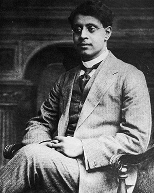 Sukumar Ray, children's author and father of Satyajit Ray. The subject of the photograph has been deceased since: 1923